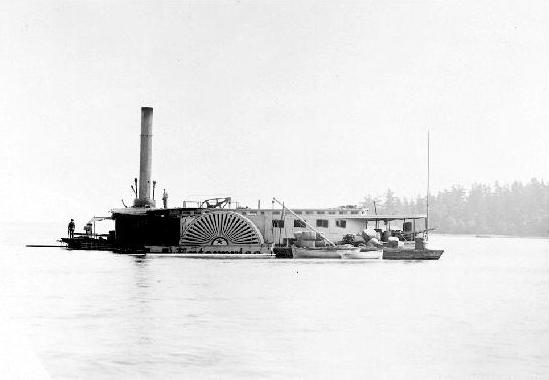 Wreck of sidewheel steamer Enterprise near Ten Mile Point near Victoria, BC.